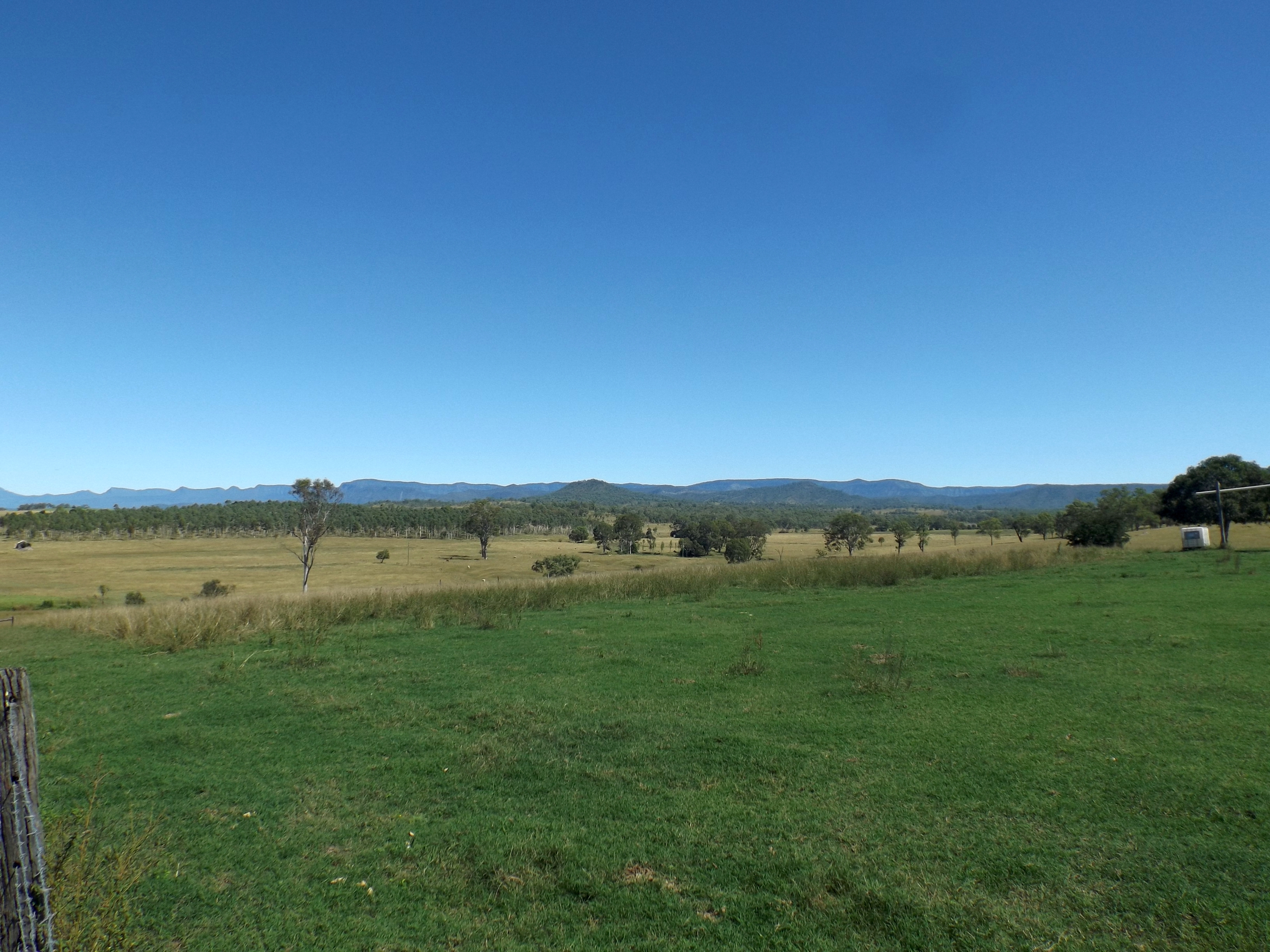 Photo of fields along Mount Walker West Road at Merryvale, Scenic Rim Region, Queensland, Australia.